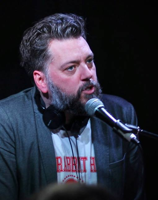 Iain Lee Hosting The Rabbit Hole Show at the Bill Murray, London.